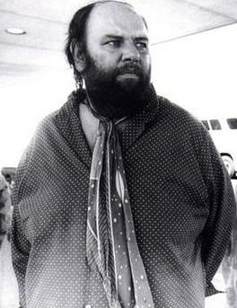 Peter Grant, circa 1970's